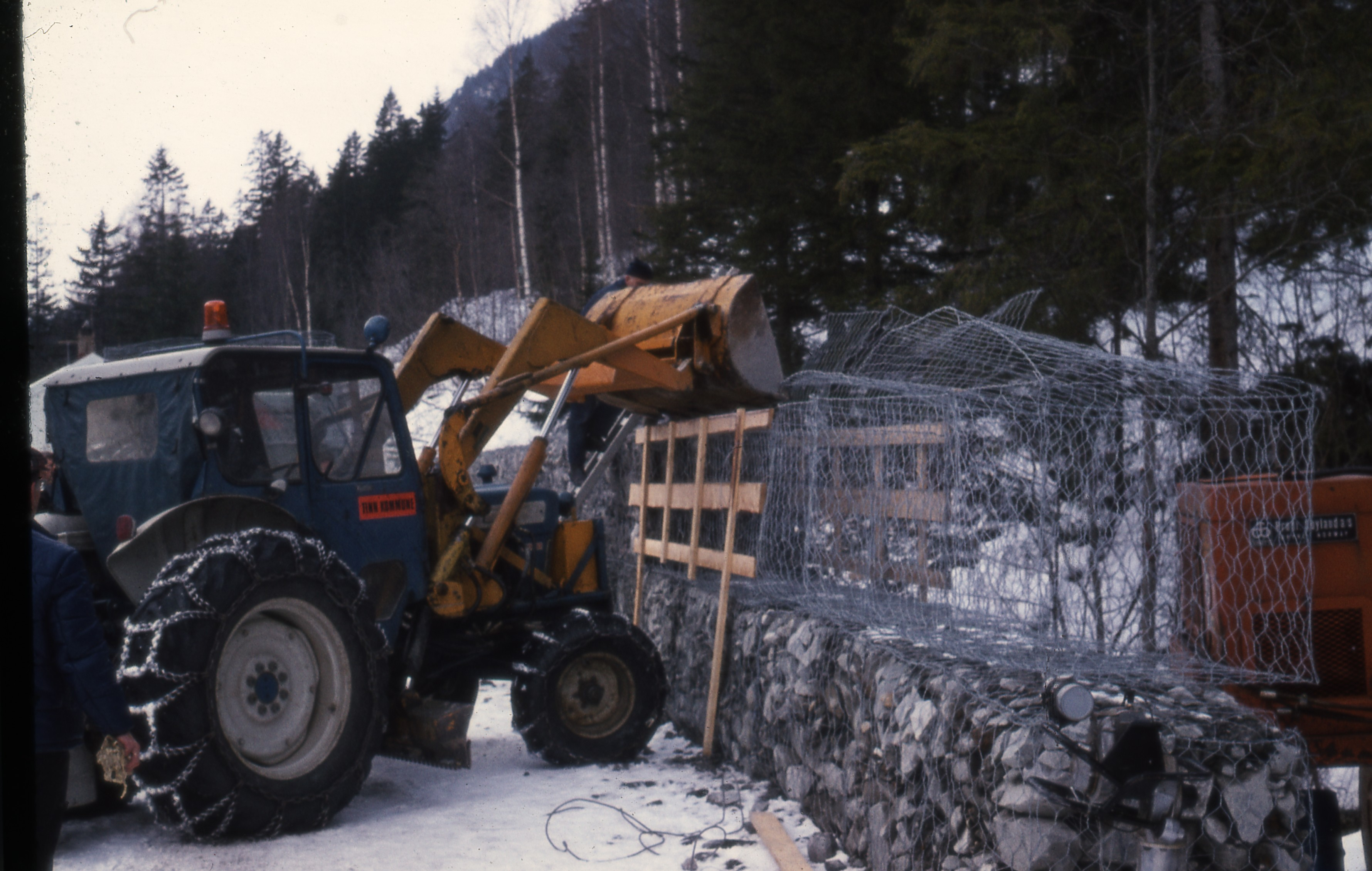 Image Note: Protection against rockslide in Tveitolia, Rjukan. Here you can se an enrockment with gabions on top. Bildenotat: Sikring mot steinskred i Tveitolia, Rjukan. Her driver man med steinfylling med gabioner på toppen. Date/Dato: 10.03.1975 Photograph/Fotograf: unknown/ukjent Feel free to use the photos, but please make sure you attribute the photographer and mention NVE as the source. Bruk gjerne bildene, men vennligst oppgi fotografens navn og angi NVE som kilde. Format: Negative/Negativ Archive/Arkiv: Forbygning Image ID/Bilde ID: NVE-VF_d-834